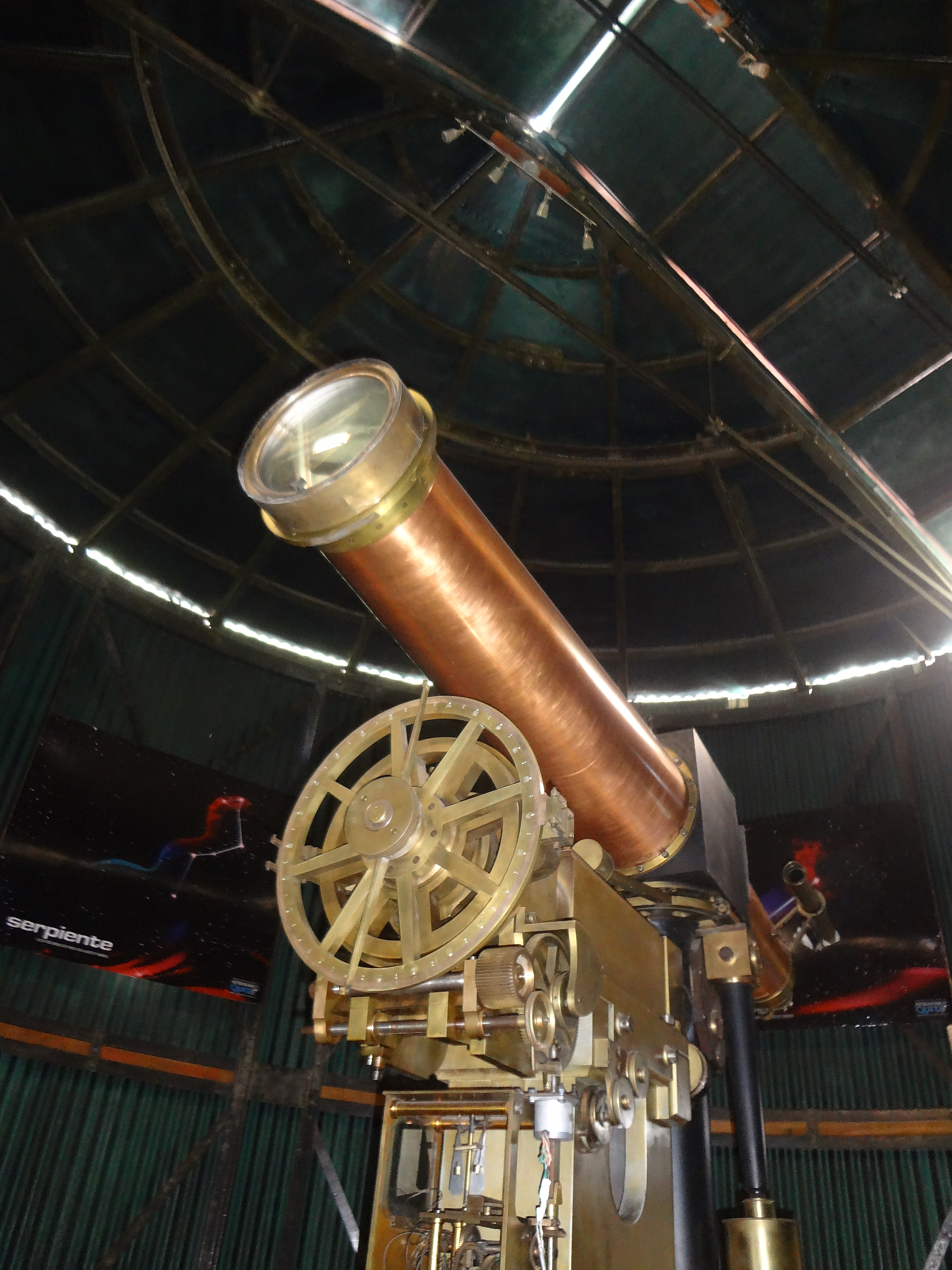 Inside the Quito Astronomical Observatory is this 1875 Georg Merz and Sons, 24cm (9.4 inch) vintage refracting telescope on an Equatorial mount. El Centro Histórico de Quito Ecuador South America Historic Center of Quito - UNESCO World Heritage Site Photography by David Adam Kess